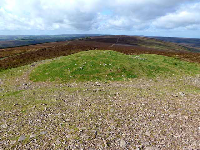 Summit ridge of Dunkery Beacon